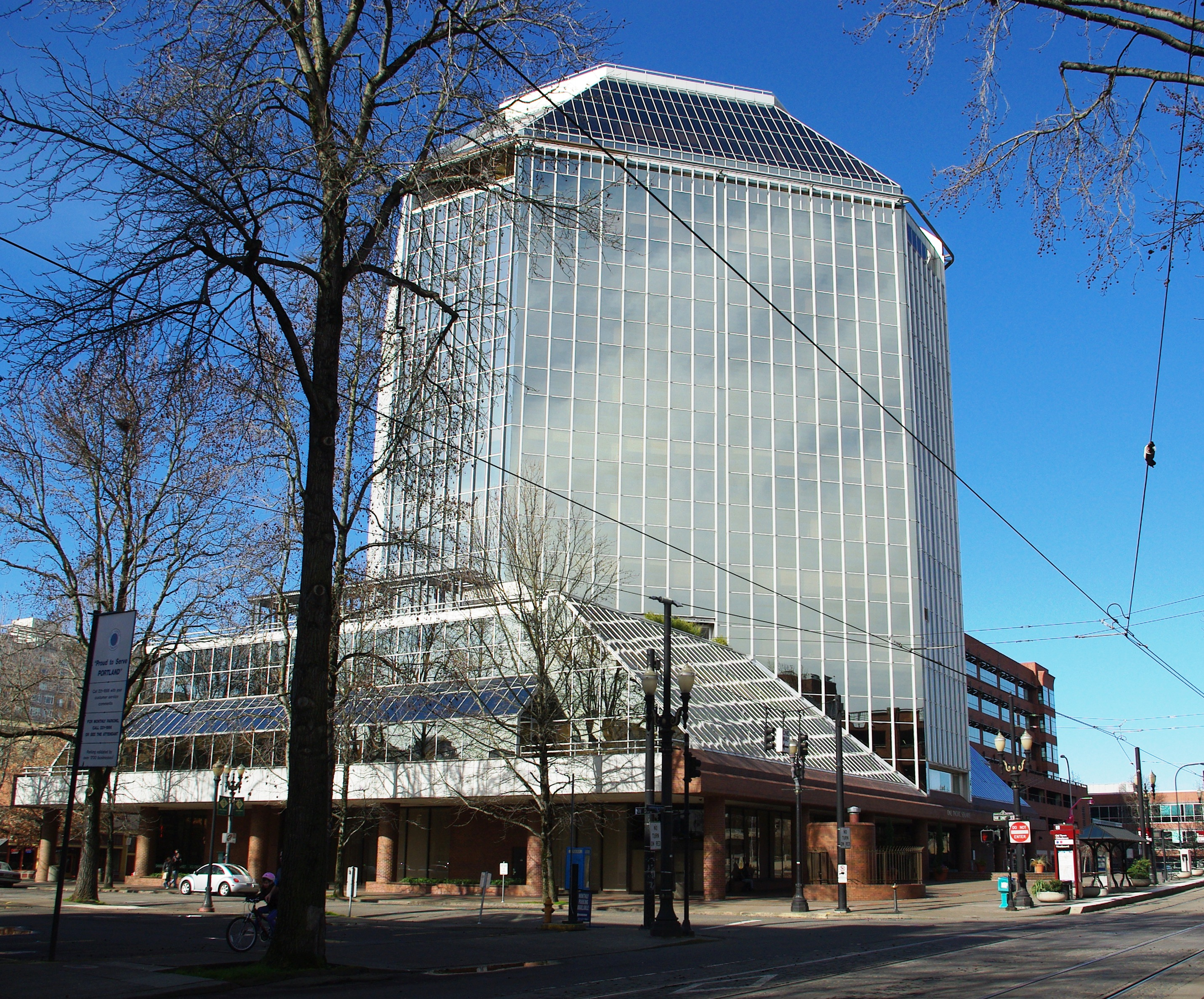 One Pacific Square, home to NW Natural in Portland, Oregon.